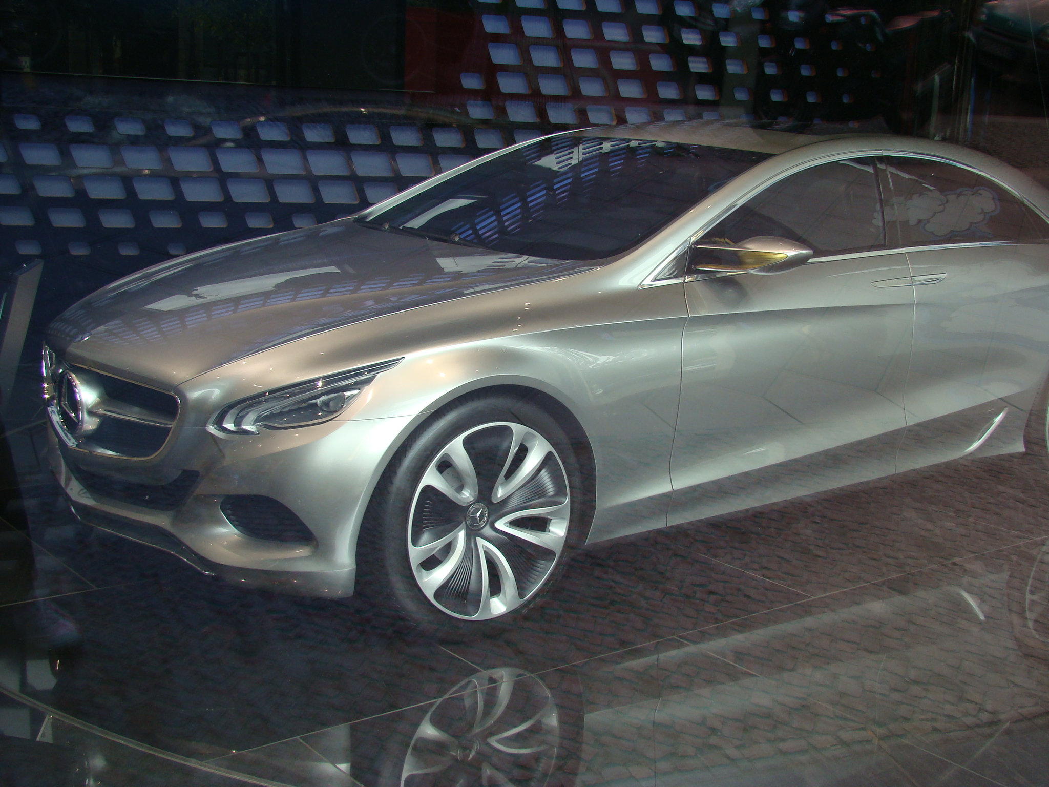 Mercedes-Benz F800